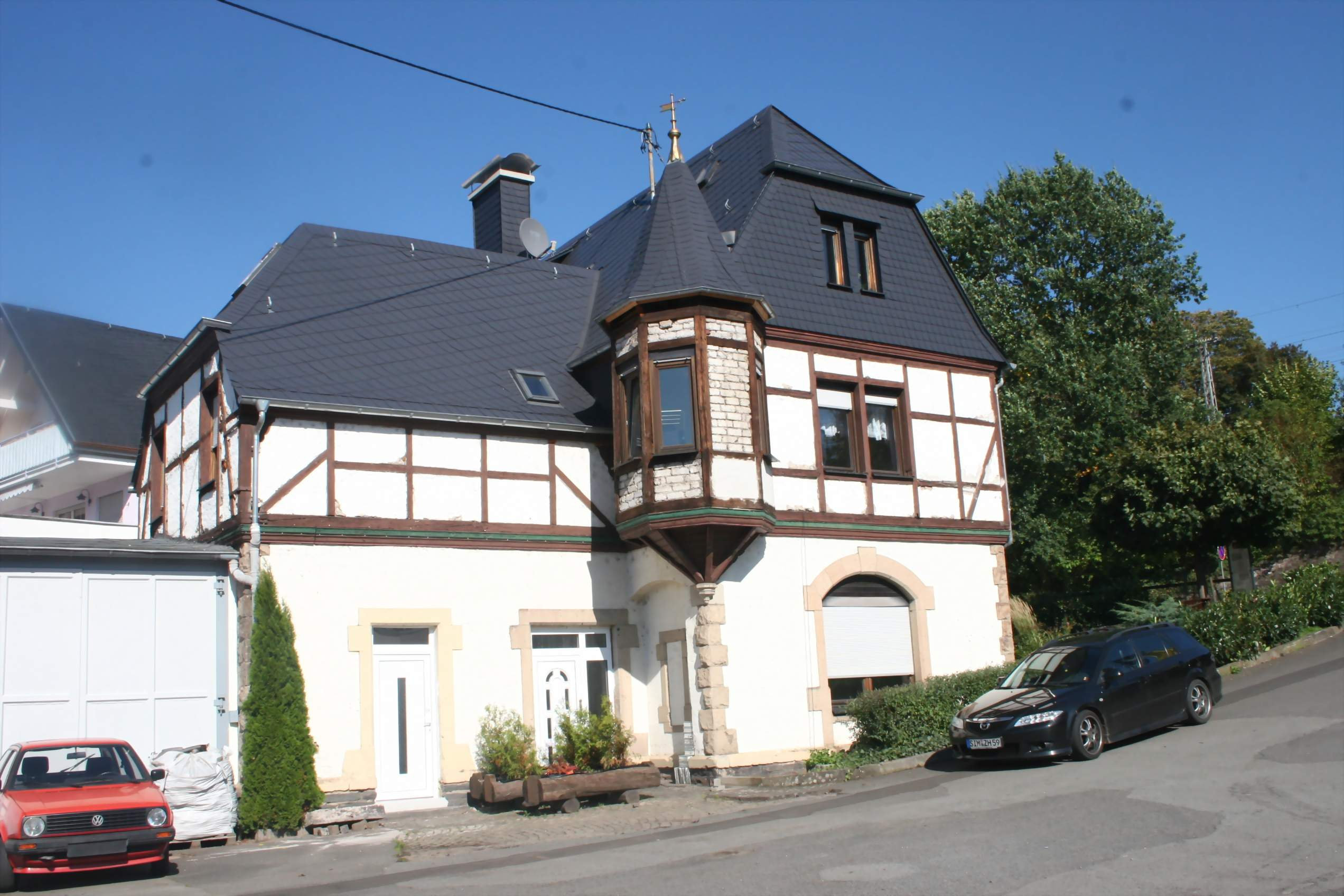 Defunct Moselbahn Railway: The former terminal Bullay-Süd as in October 2010